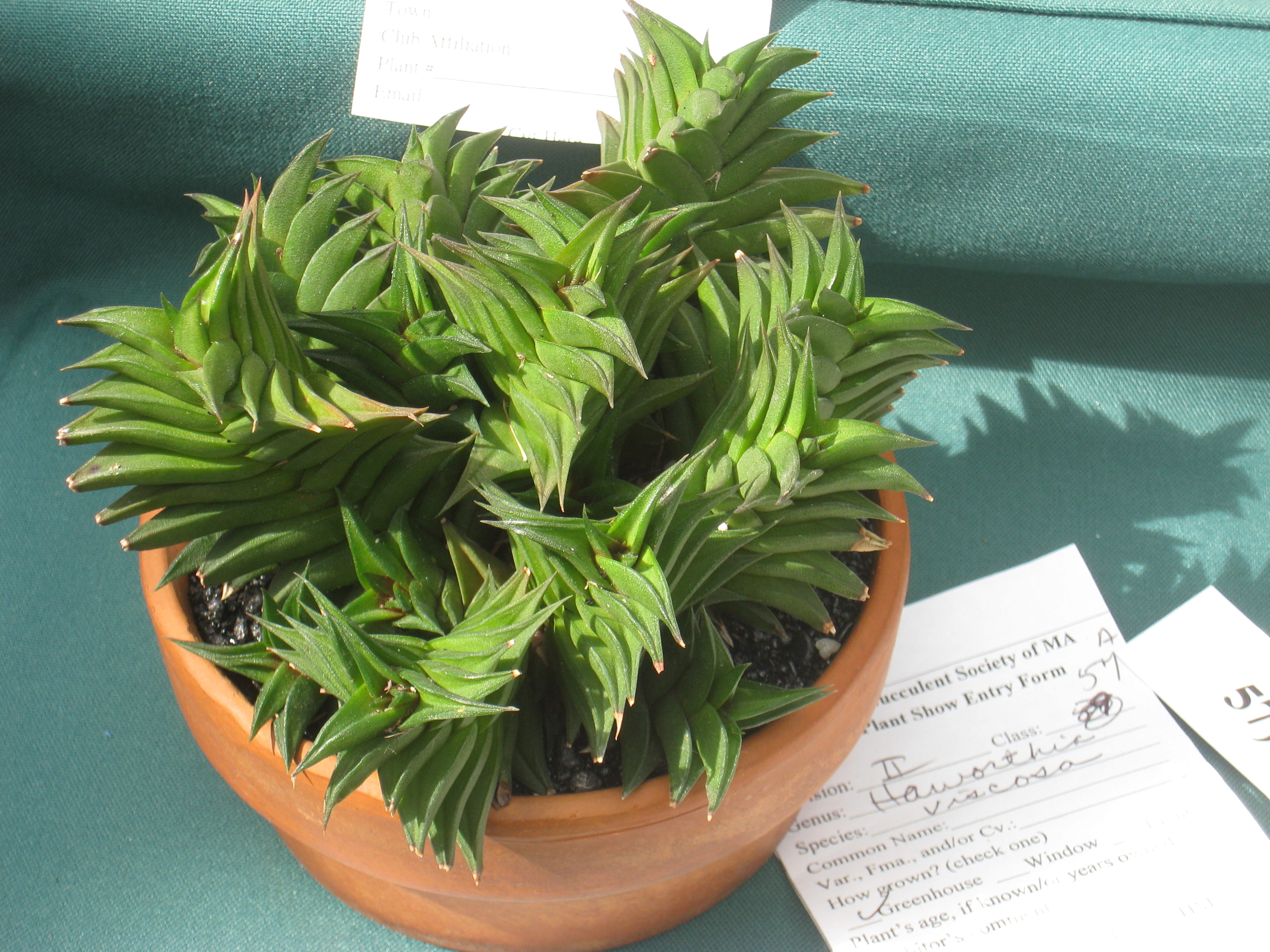 Haworthia viscosa, in the Tower Hill Botanic Garden, Boylston, Massachusetts, USA.